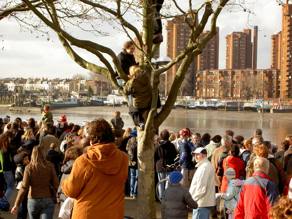 Crowds watching the whale in the Thames Shermozle 14:09, 21 January 2006 (UTC)